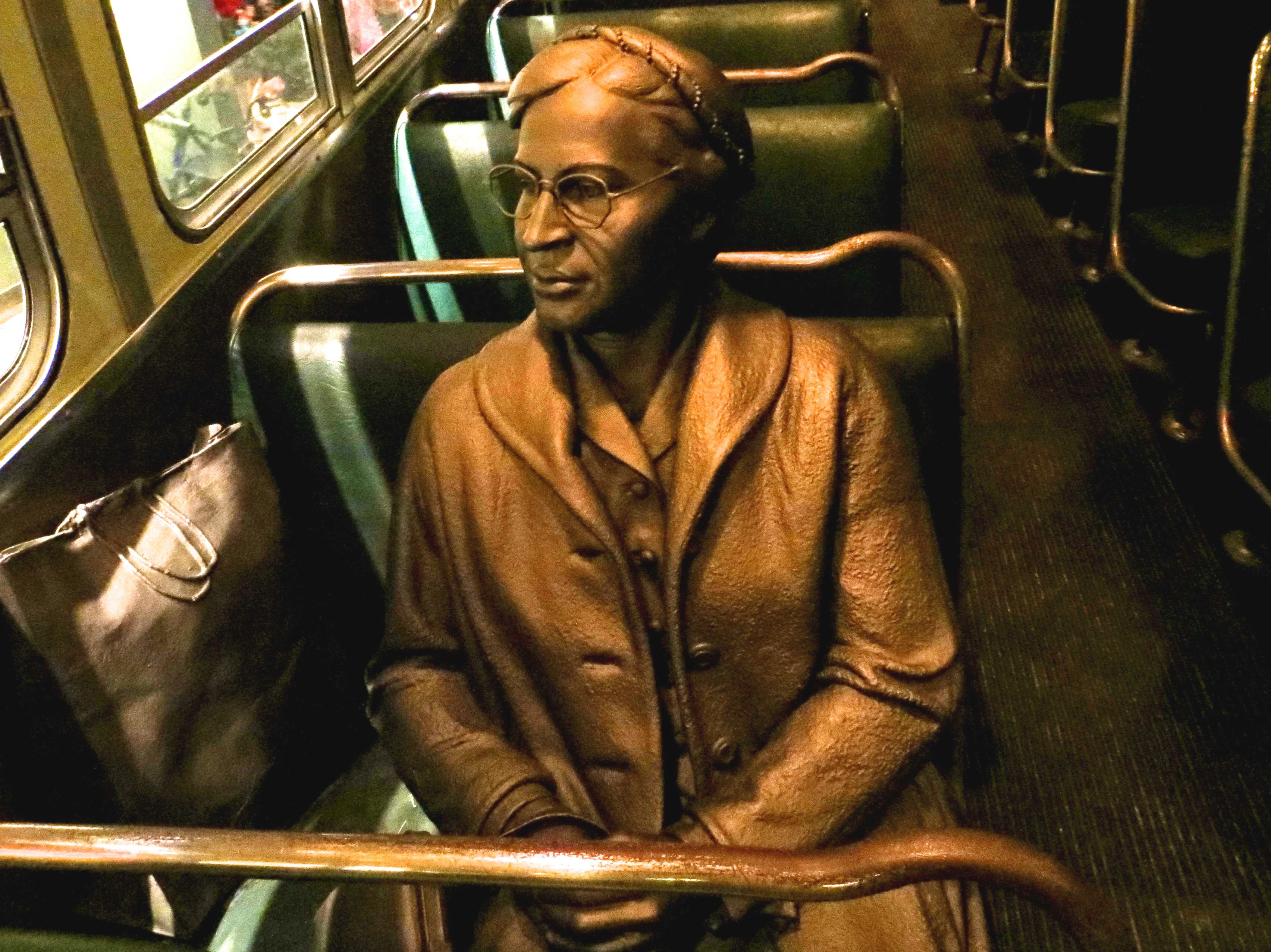 Statue of Rosa Parks from Memphis Museum